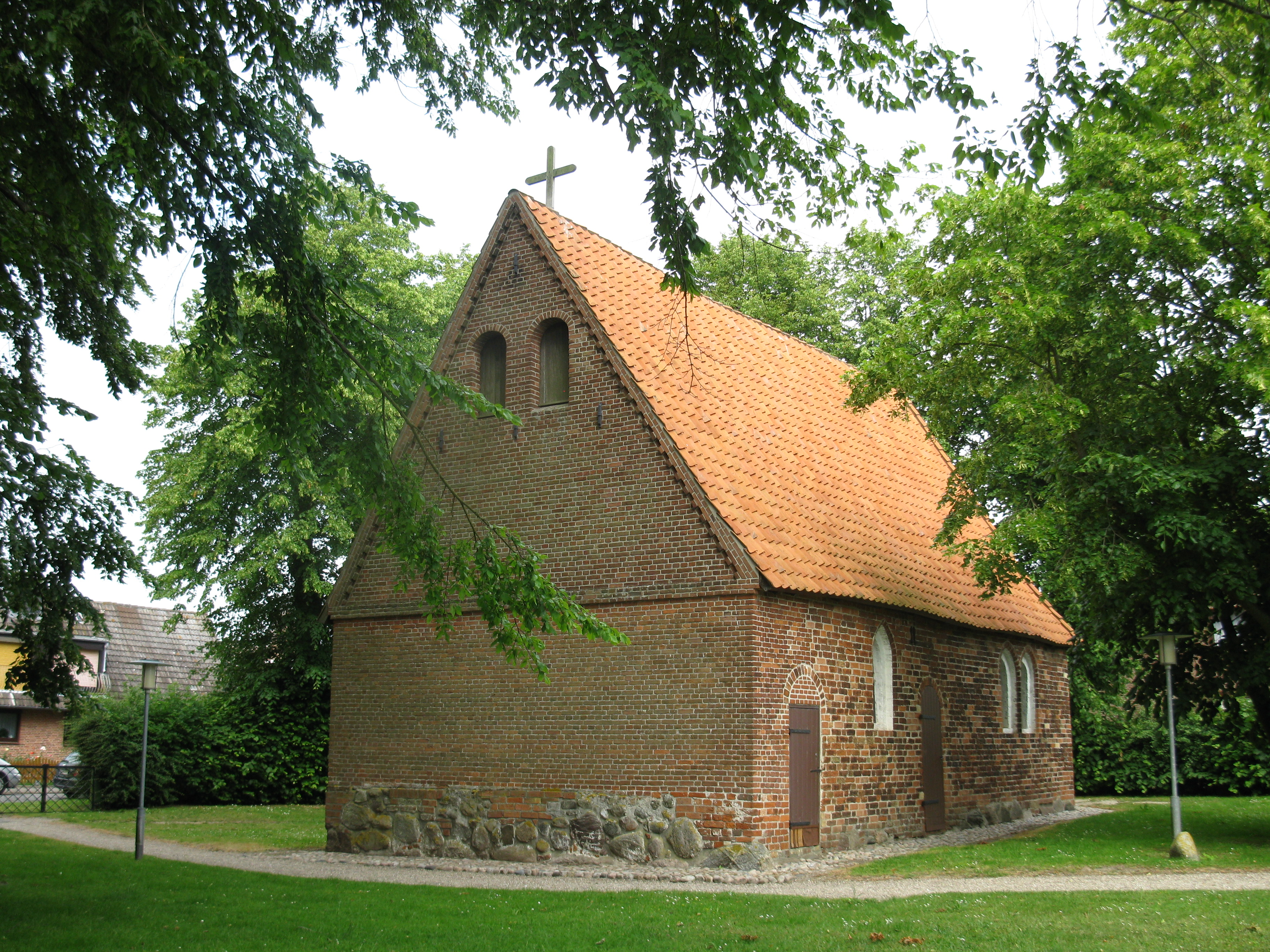 Saint Jürgen Chapel, Burg, Fehmarn